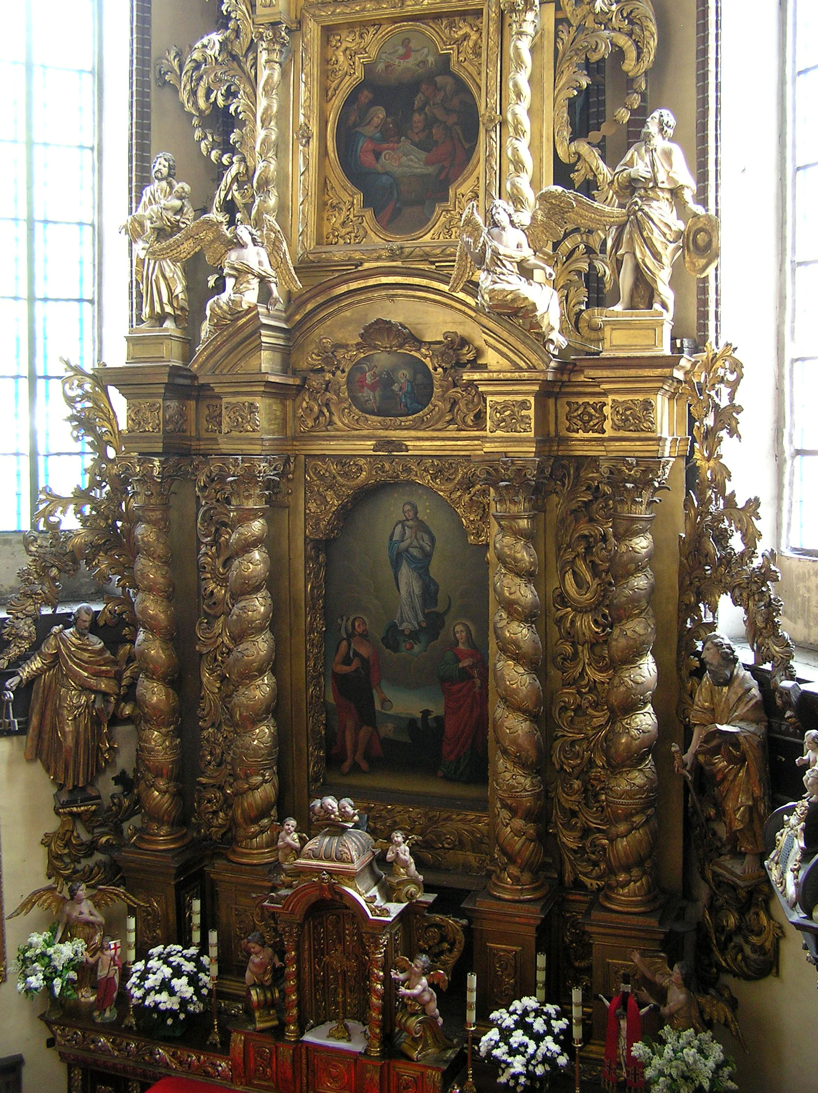 Chełmno, Church of SS. Johns, by 1429 Cistersian nun's, by 1821 Benedictine nun's, nowadays Sisters' of Charity, high altar